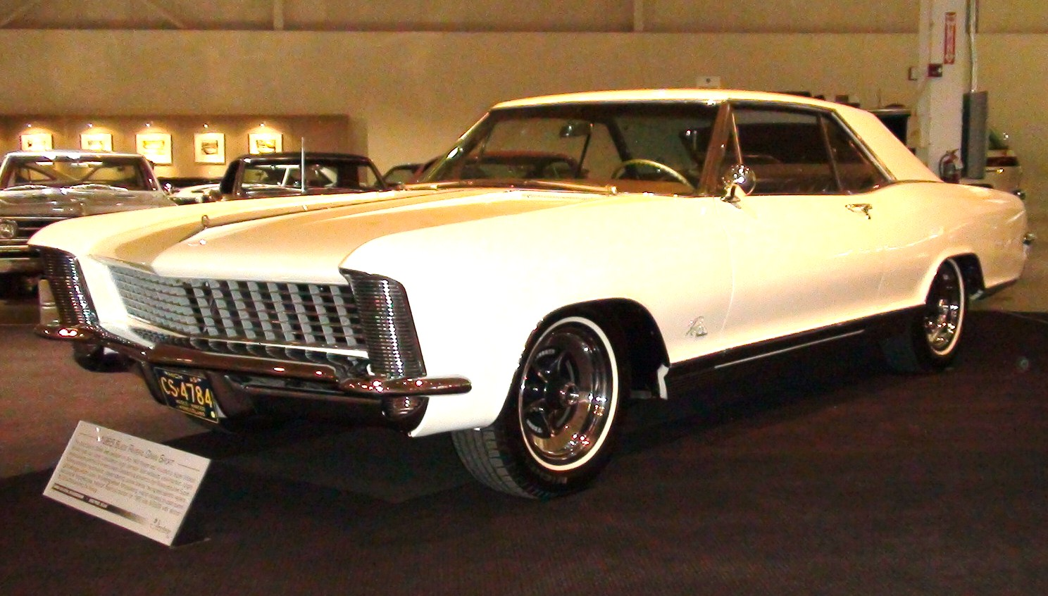 GM Heritage Center.